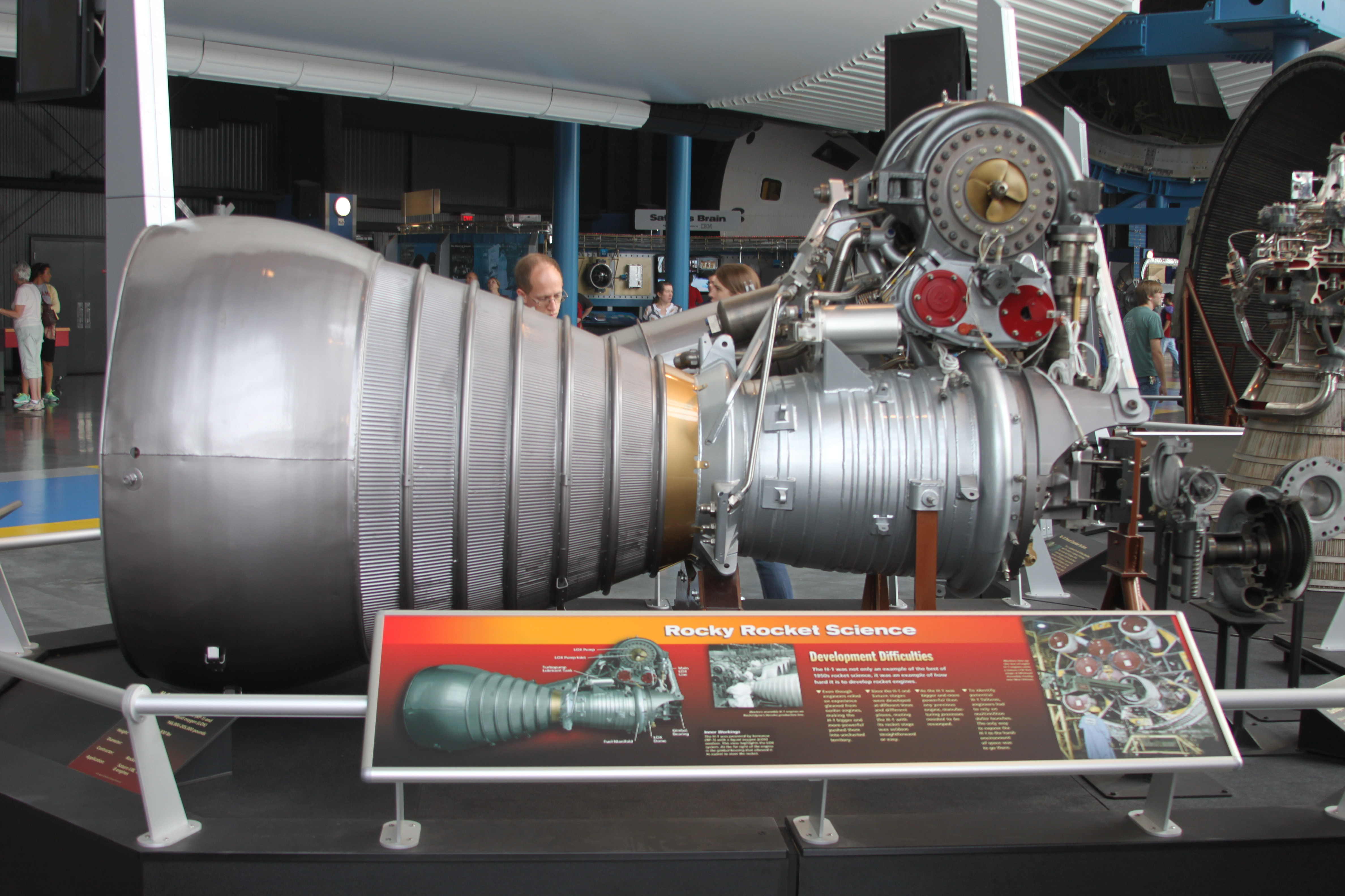 An H-1 rocket engine on display at the U.S. Space & Rocket Center